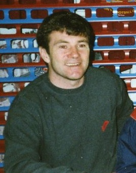 This file has been extracted from another file: Ray Houghton, Steve Staunton Coca-Cola Cup 1995.jpg